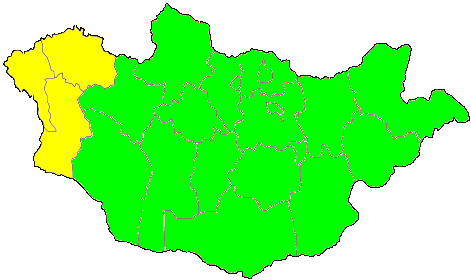 Time Zones of Mongolia